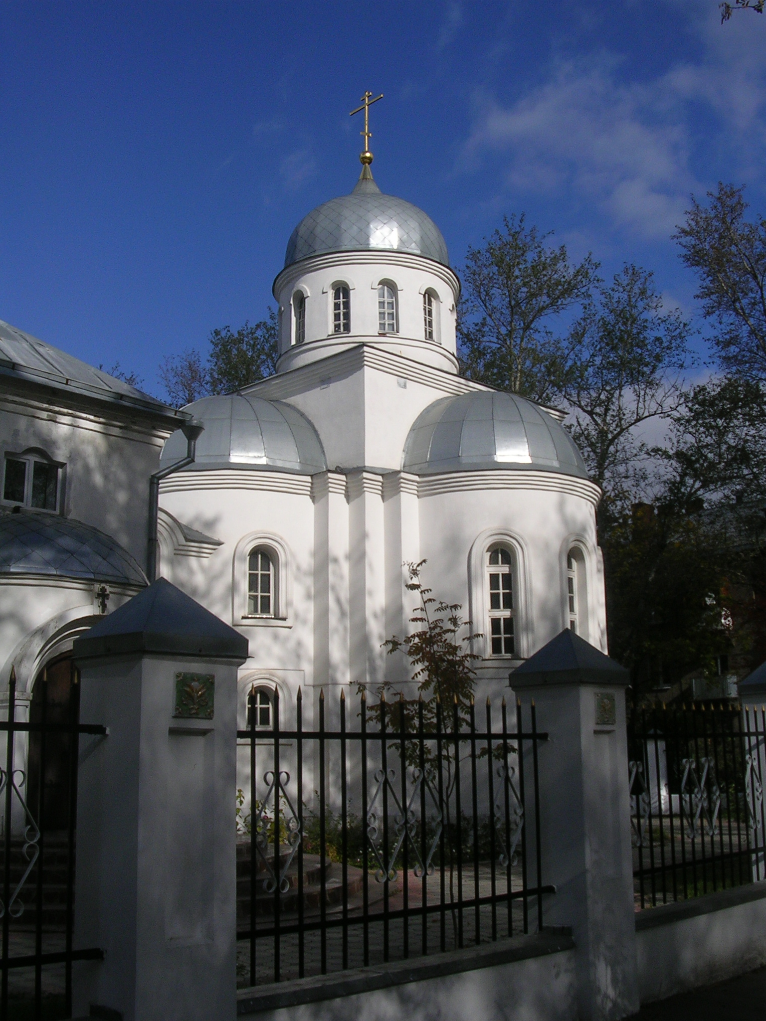 Saint John of Kronstadt Temple in Electrostal, Moscow region.